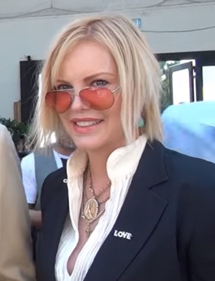 What brings legendary actor Robert Wagner out with his daughter Katie Wagner? Robert and Katie talk about Robert's tv show "NCIS", Paul Newman and racing, Burt Bacharach and writing about old Hollywood. Interview by Sulinh Lafontaine for MBN Newsvideoweb at Doris Bergman's 4th Annual Style Lounge & Party gifting suite in celebration of Emmy® Season.